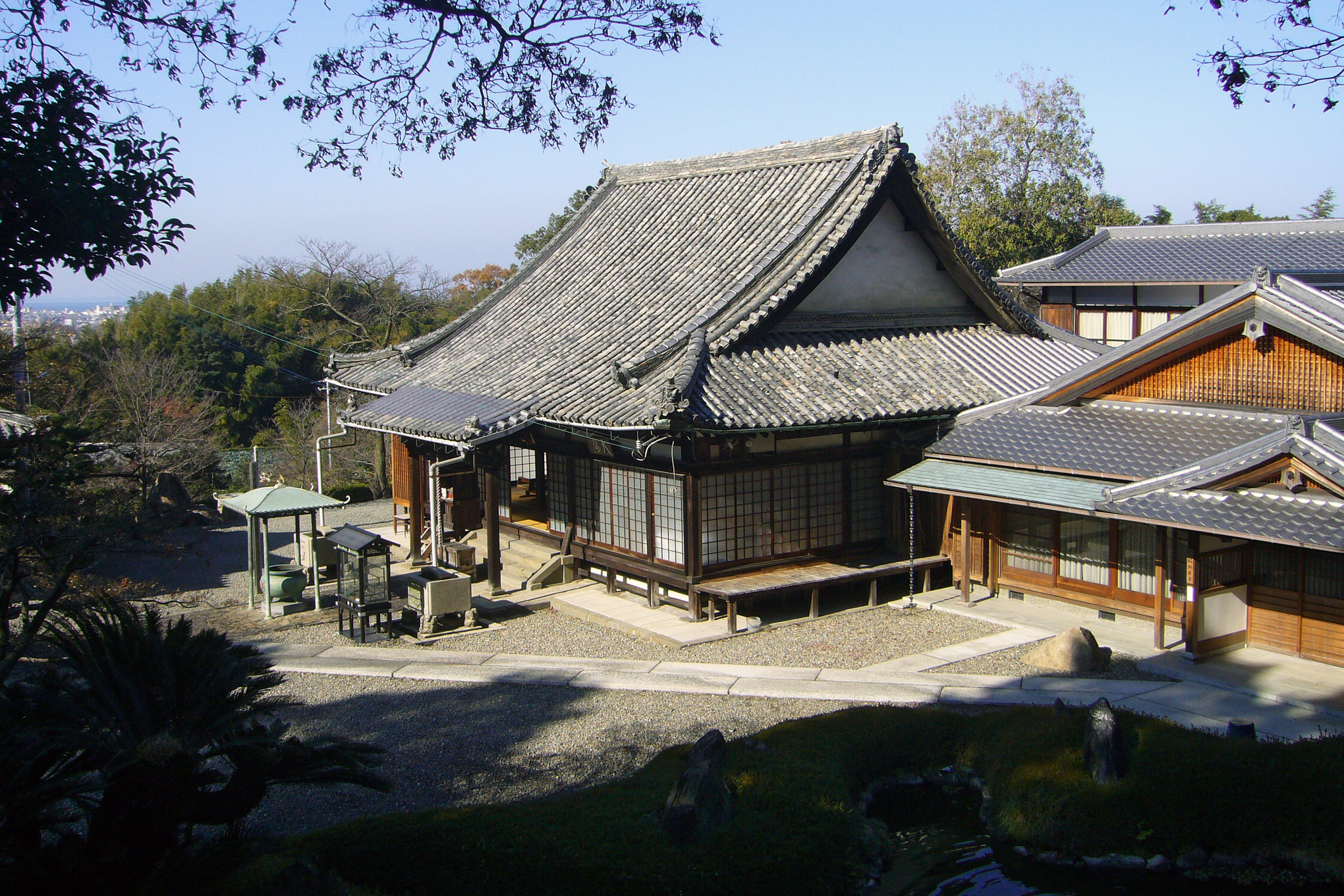 Rinsho-ji in Sennan, Osaka prefecture, Japan